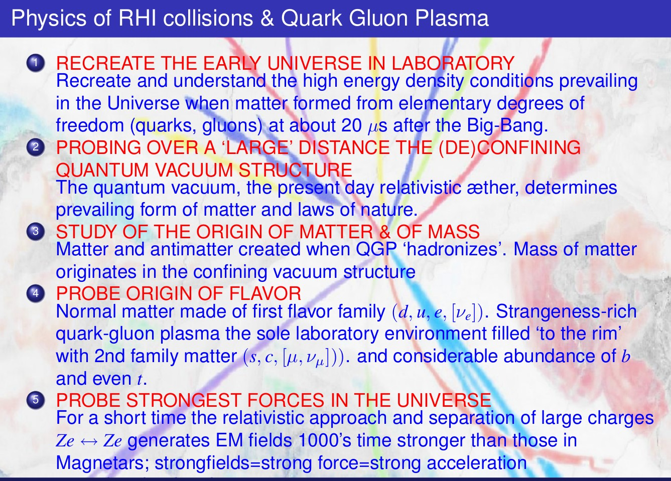 The five reasons to study QGP. The background of the slide is based on the Sistine Chapel ceiling fresco "The Creation of Adam" by Michelangelo. This picture ornamented the poster of the first QGP 1992 Summer school "Particle Production in Highly Excited Matter" organized by Hans H. Gutbrod and Johann Rafelski, for proceedings see "Particle production in highly excited matter. Proceedings: NATO Advanced Study Institute, Il Ciocco, Italy, Jul 12-24, 1992, eds. H. H. Gutbrod and J. Rafelski, NATO Sci. Ser. B, vol. 303, pp.1--689 (Plenum/Springer 1993)